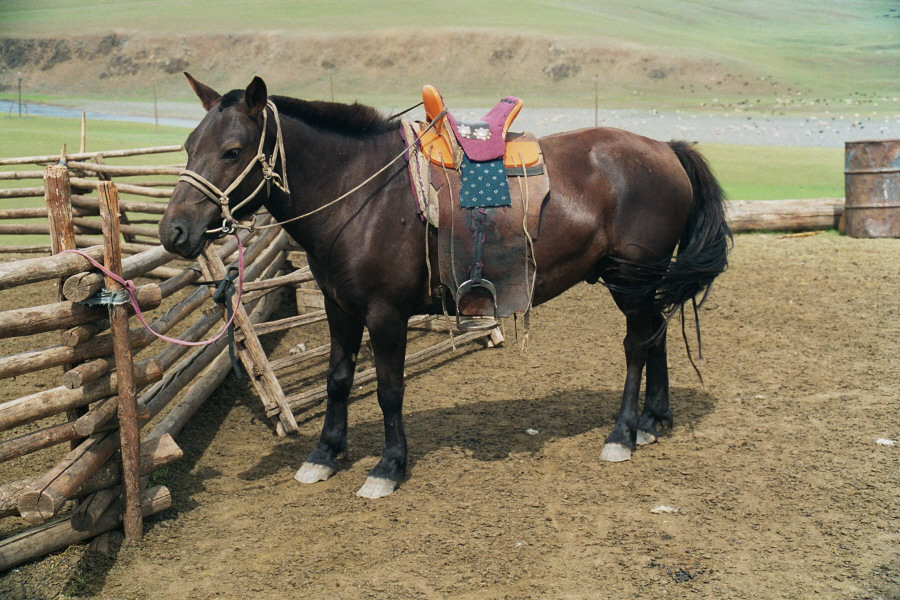 Mongolian horse with working saddle. Bat Ülziy Sum, Övörkhangay Aymag, Mongolia. Bull neck: short and thick.